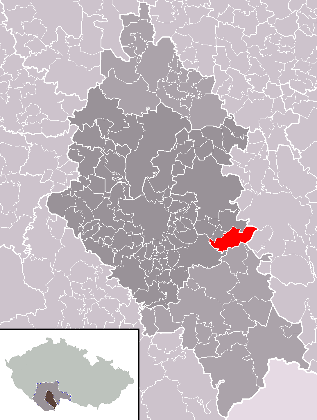 Location of Libín municipality within České Budějovice District and administrative area of České Budějovice as a Municipality with Extended Competence.